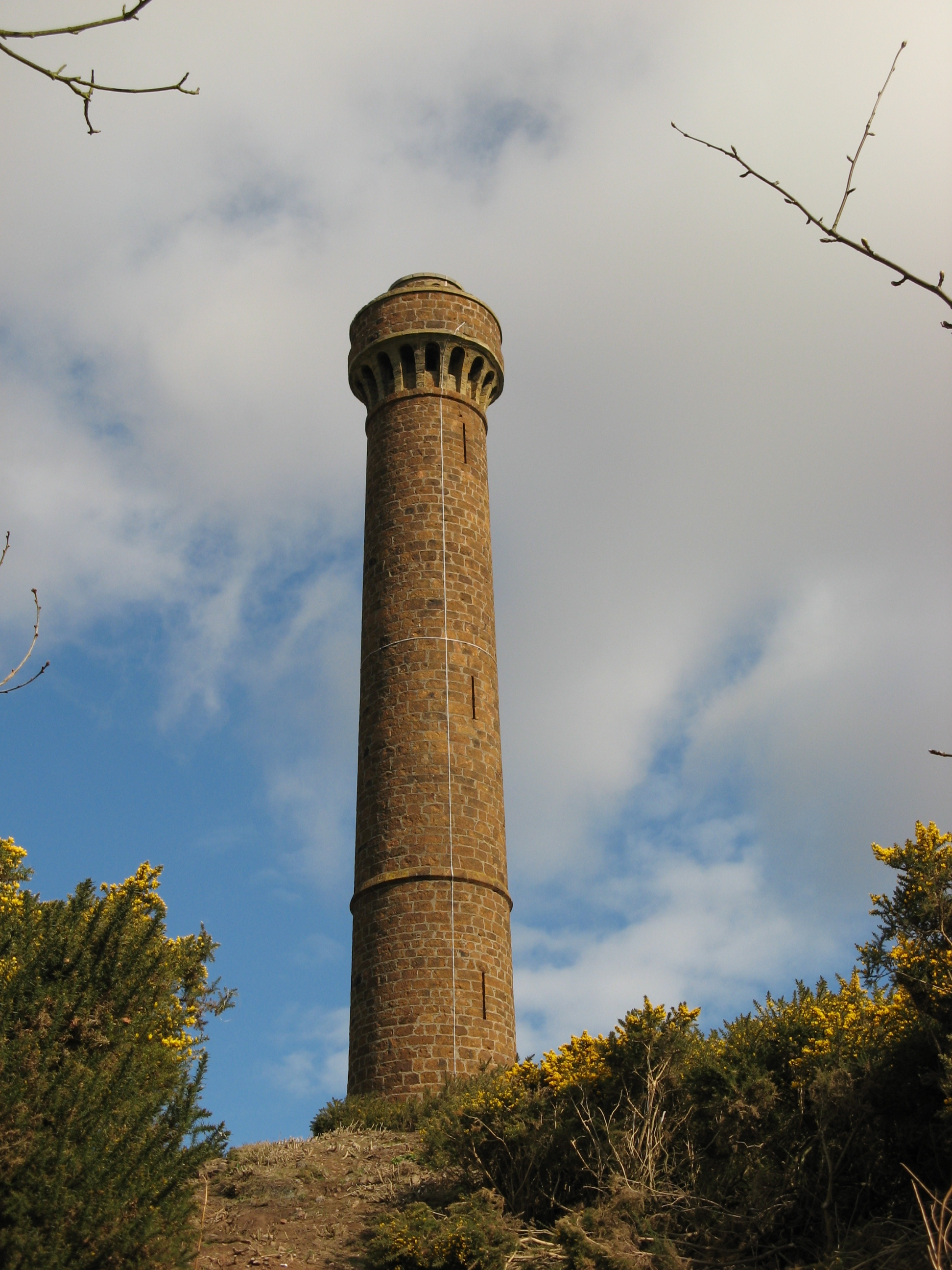 The Hopetoun Monument, Byres Hill, East Lothian, Scotland. The monument commemorates John, 4th Earl of Hopetoun (1765-1823), and was built in 1824. It is 180m (560 feet) high. A plaque on the side reads: "This monument was erected to the memory of the great and good John - Fourth Earl of Hopetoun by affectionate and grateful tenantry in East Lothian MDCCCXXIV"